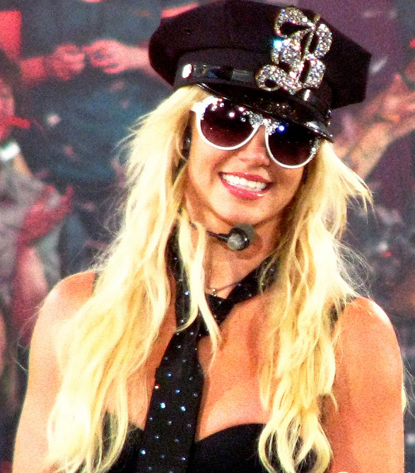 Spears performing in Tulsa